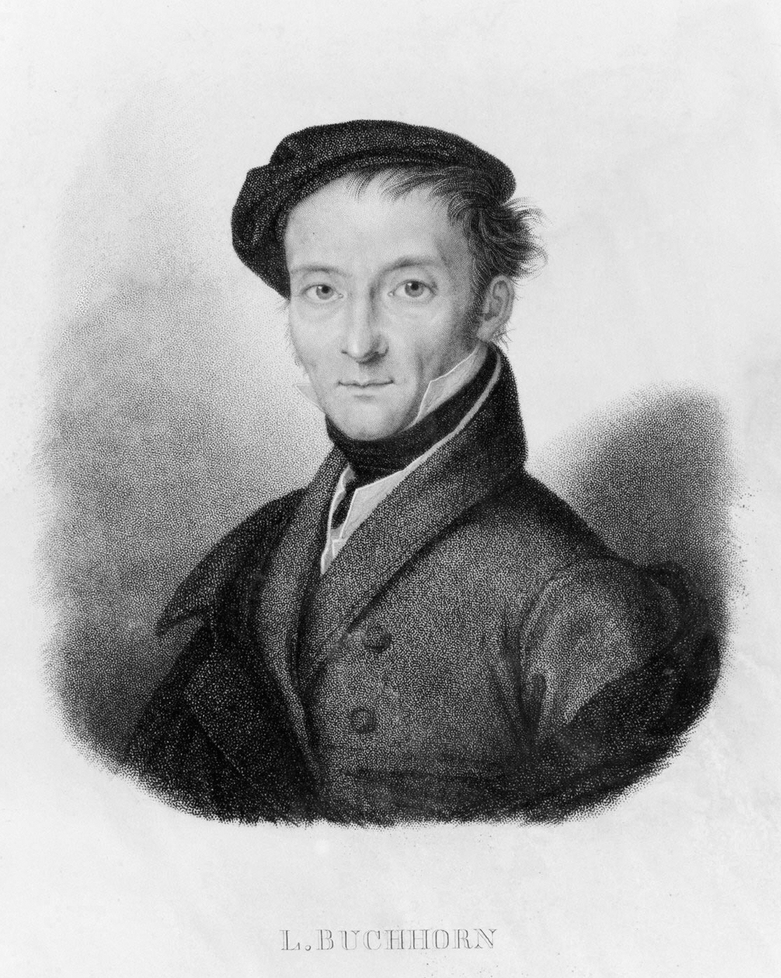 Ludwig Buchhorn, 1770-1856 etching and stipple, with roulette 27 x 22.2 cm